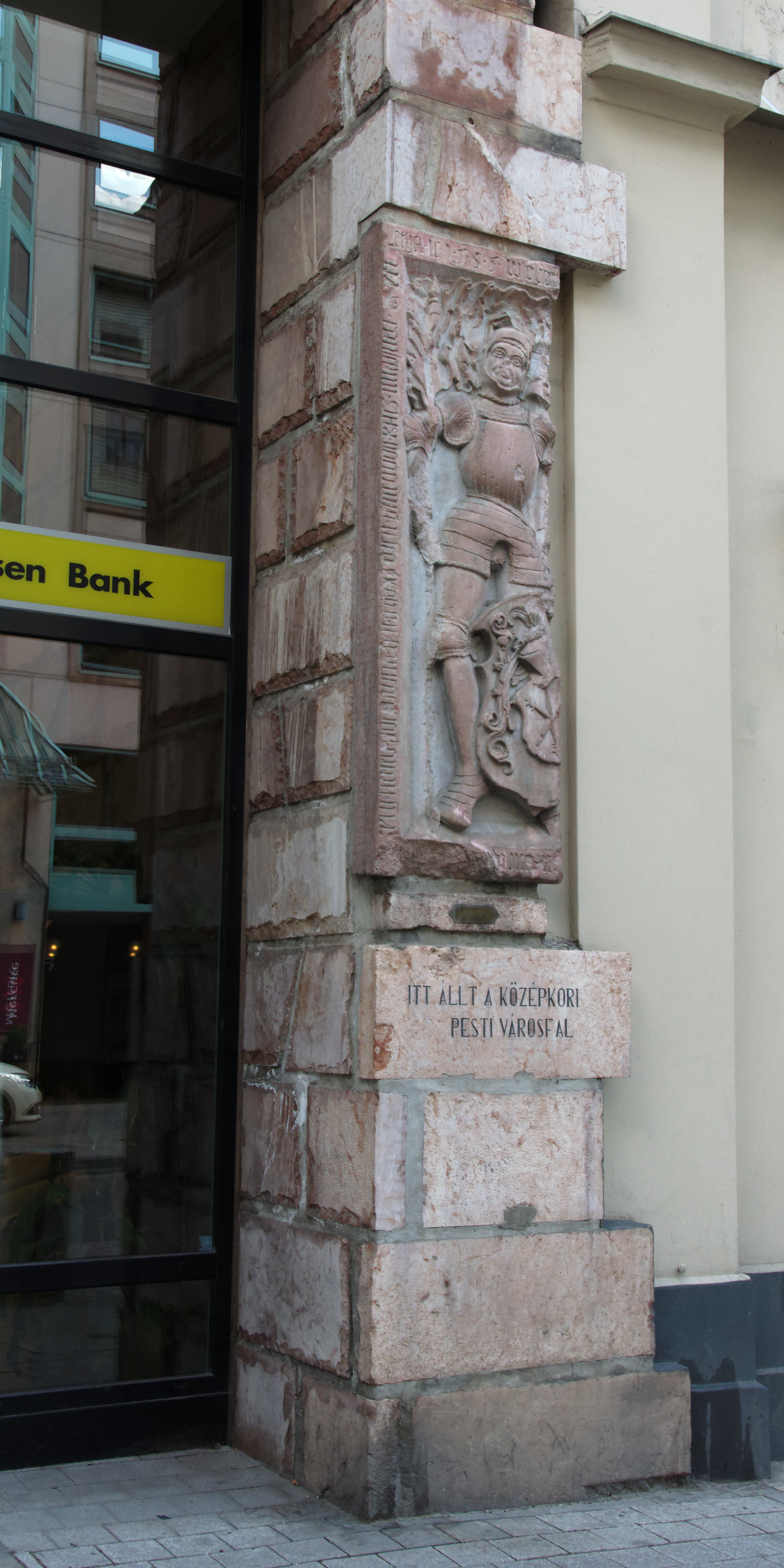 Remains of the Hatvan Gate. A part of the medieval city wall of Pest. - Budapest, District 5. Kecskeméti St.